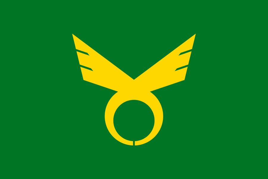 Flag of Kashihara, Nara